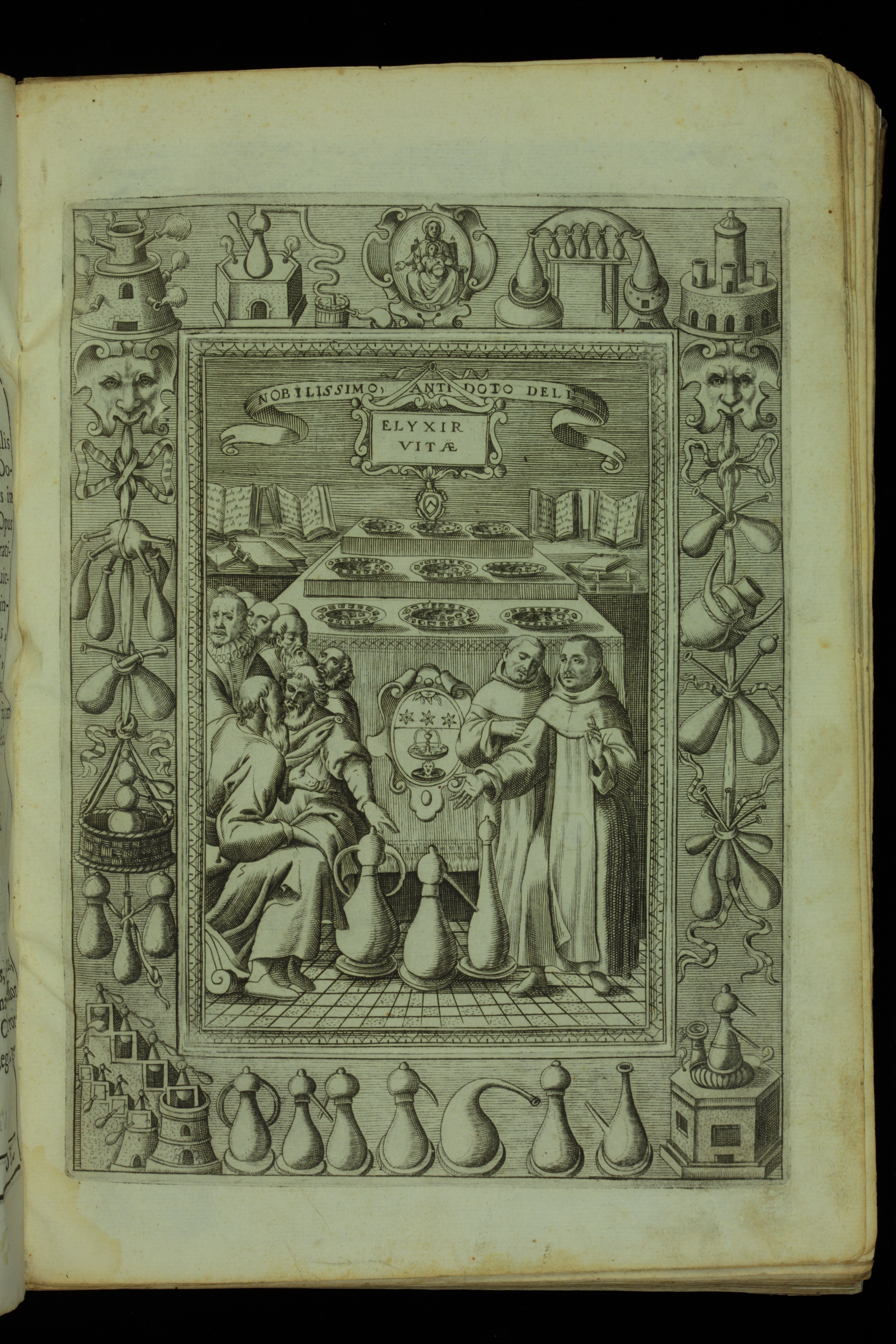 Plate 1, from Dell' elixir vitae / di Frà Donato d'Eremita di Rocca d'Euandro dell' ord. de Pred. libri quattro. by Donato d'Eremita. Napoli : S. Roncagliolo, 1624. The caption reads: "NOBILISSIMO, ANTIDOTO DELL' ELYXIR VITÆ" Distilling found a home in the monastic workshop tradition. The Neapolitan friar Donato d’Eremita presented his “Elixir of Life” to distinguished visitors, including natural philosophers and royal officials who were concerned about the use of the new technology in the traditional pharmacopoeia.